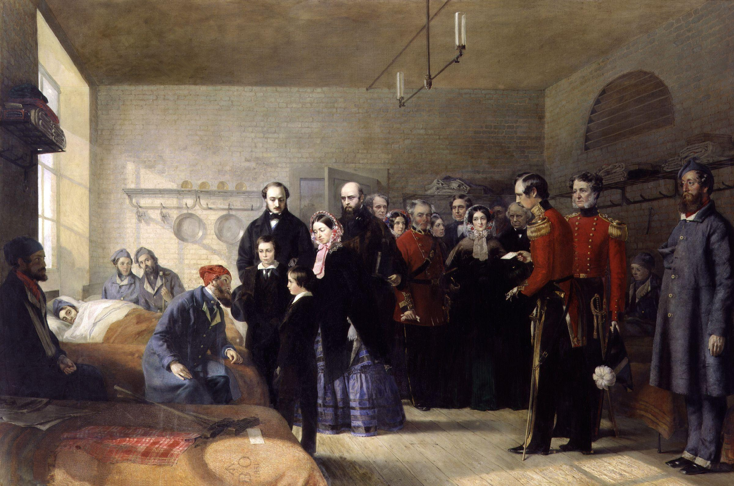 Queen Victoria's First Visit to her Wounded Soldiers, by Jerry Barrett (died 1906). "Queen Victoria's First Visit to Her Wounded Soldiers". Victoria is accompanied by her husband Prince Albert, and her sons, the Prince of Wales and Prince Alfred. Accompanying the royal family are George Barratt, Charlotte Canning, Countess Canning, George Russell Dartnell, Col. and Mrs. Eden, Prince George, Duke of Cambridge, Sir Charles Grey, Henry Hardinge, 1st Viscount Hardinge, Hon. Lucy May Kerr, and Sir Charles Beaumont Phipps. The man seated on the bed is identified as "Sergeant Leny", while the wounded soldier in the bed is identified as James Higgins. The men are attended by army surgeon Henry Cooper Reade. All images in this batch have been confirmed as author died before 1939 according to the official death date listed by the NPG.